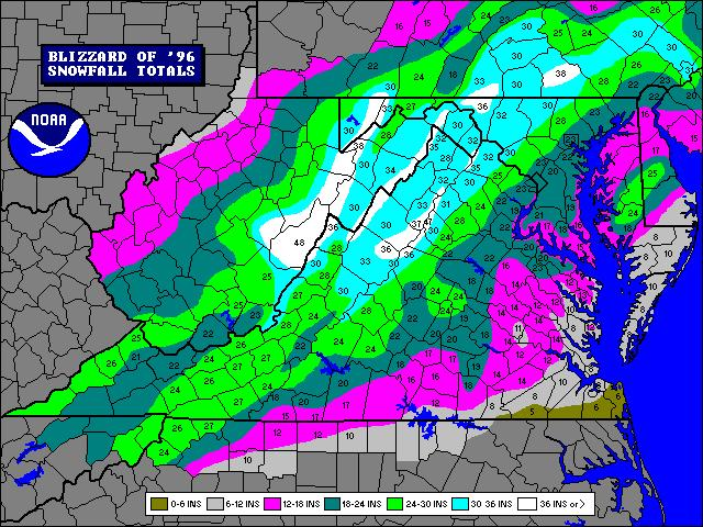 A snowfall map depicting accumulation in Virginia, USA after the North American blizzard of 1996